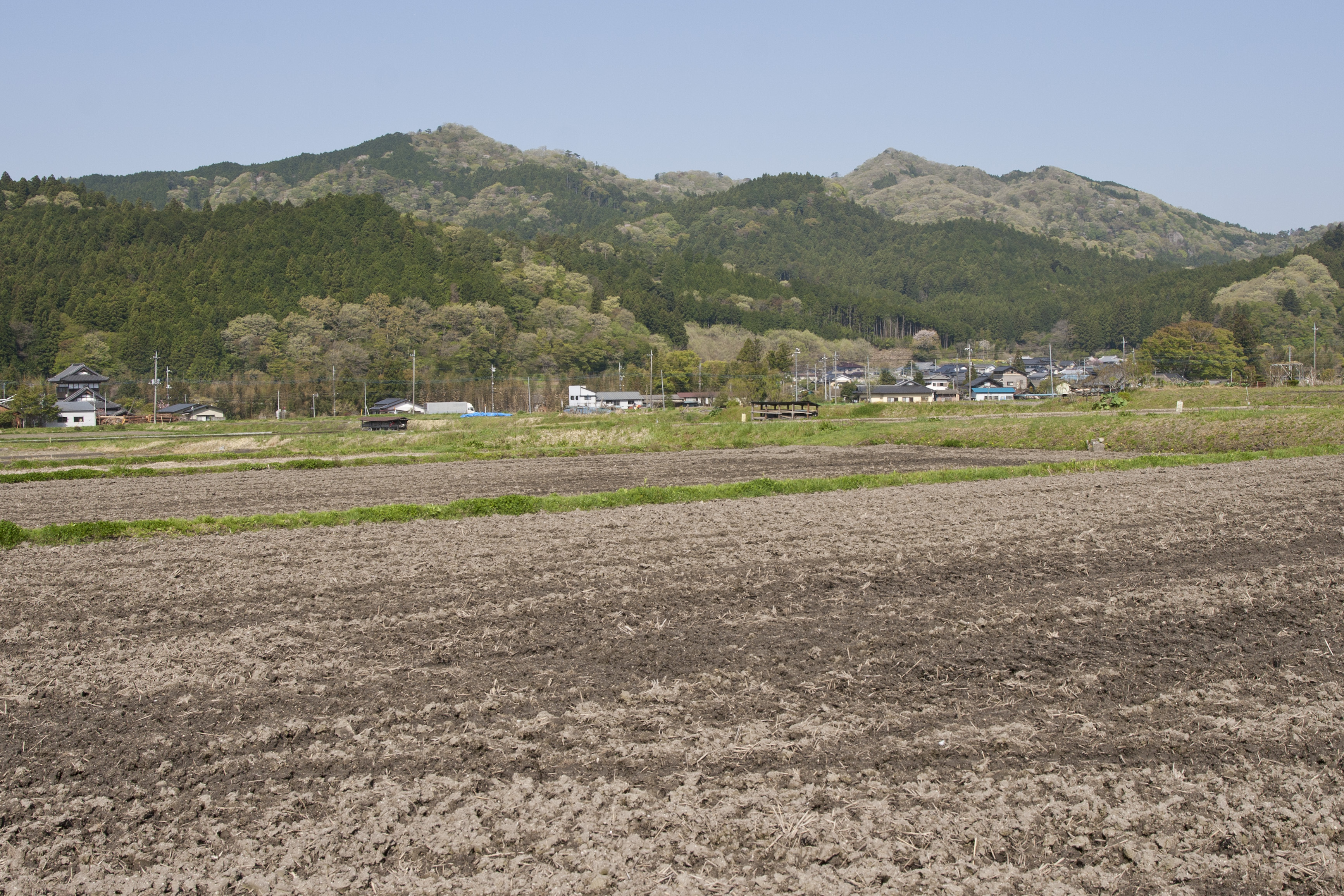 Mount Nabeashi(Nabeashi-yama), Hitachi-ota City, Ibaraki Pref., Japan